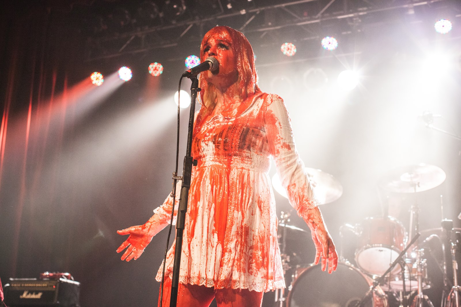 The photo I took of Jessicka July 18th at Jack off Jill 's reunion show at at The Orange Peel Asheville NC. July 18, 2015